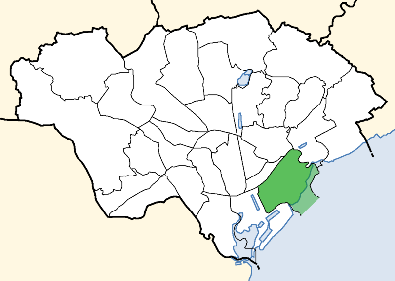 Location map showing electoral ward of Splott within Cardiff, Wales